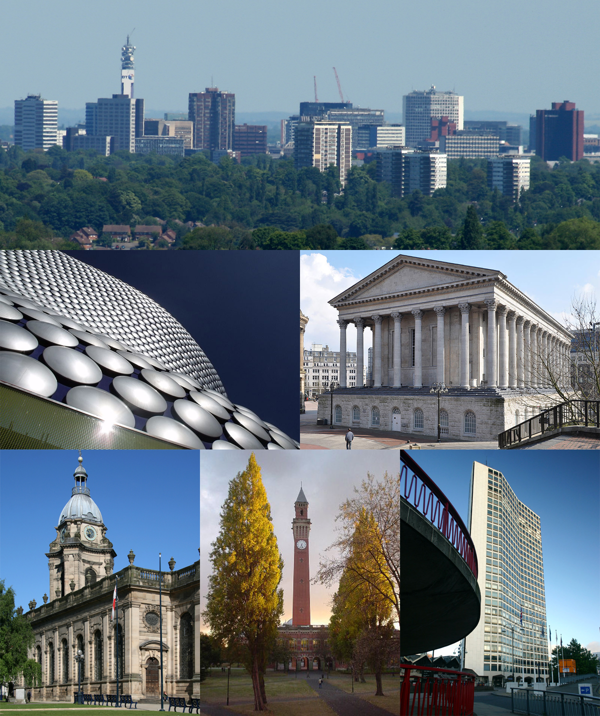 Birmingham Skyline from the west Selfridges Birmingham Town Hall St Phillip's Cathedral University of Birmingham Alpha Tower